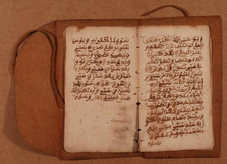 Bilali document